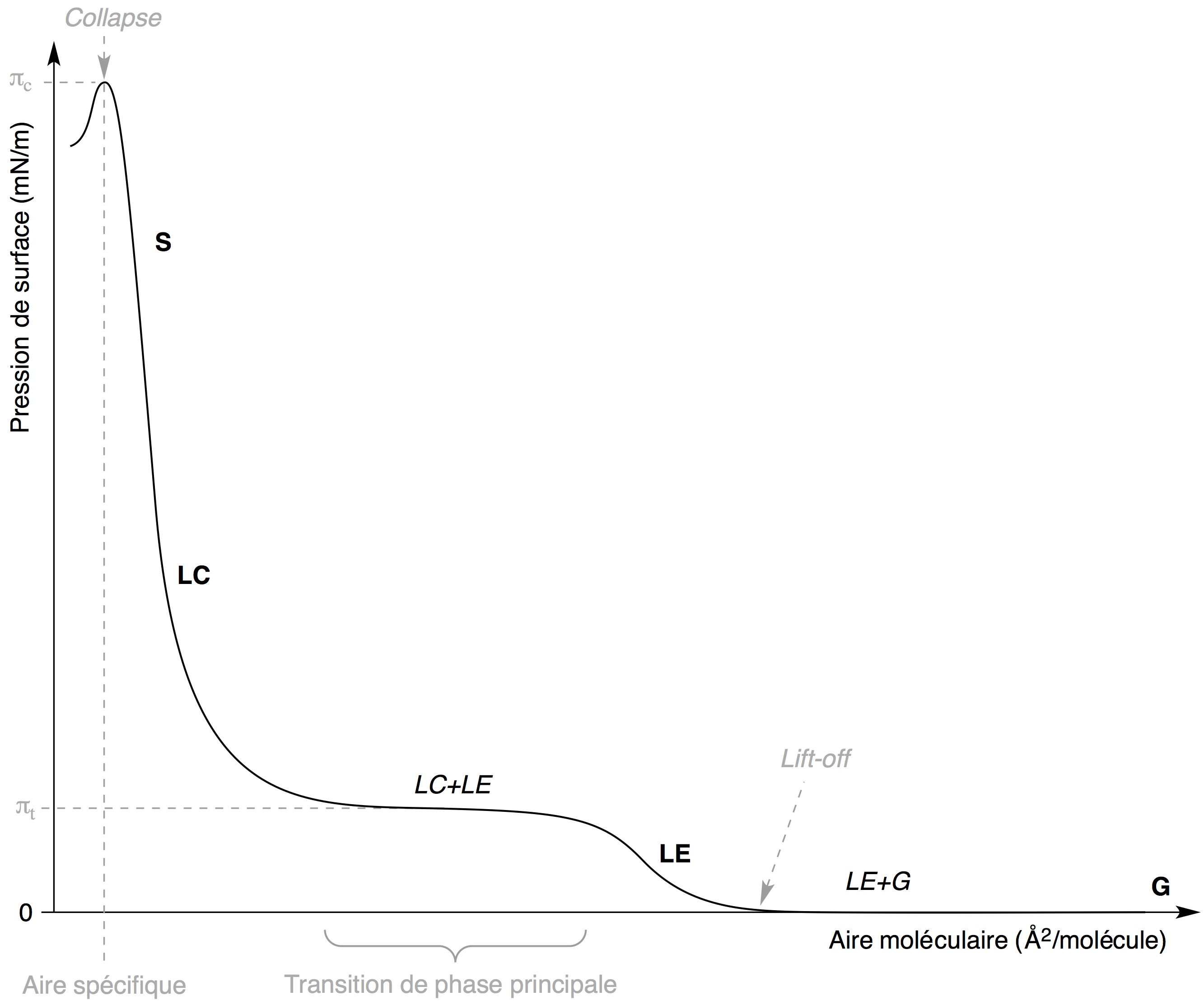 Example of a compression isotherm